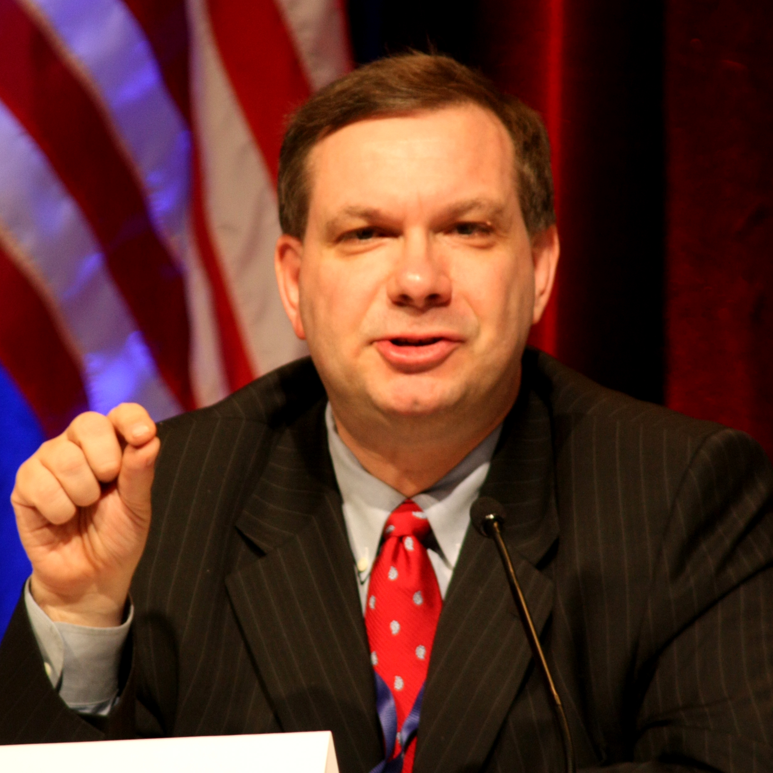 Journalist and columnist John Fund at CPAC in Washington, D.C..